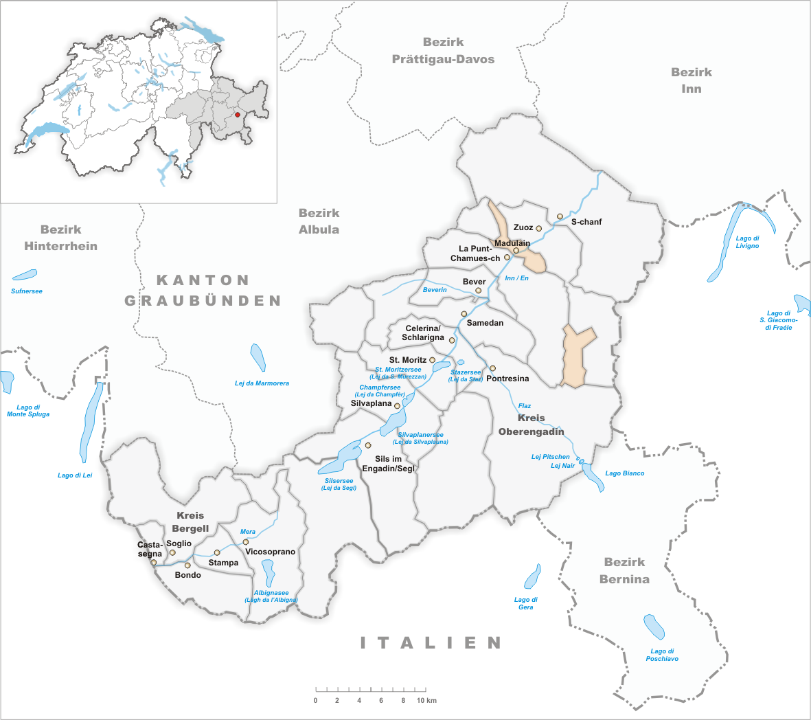 Municipality Madulain